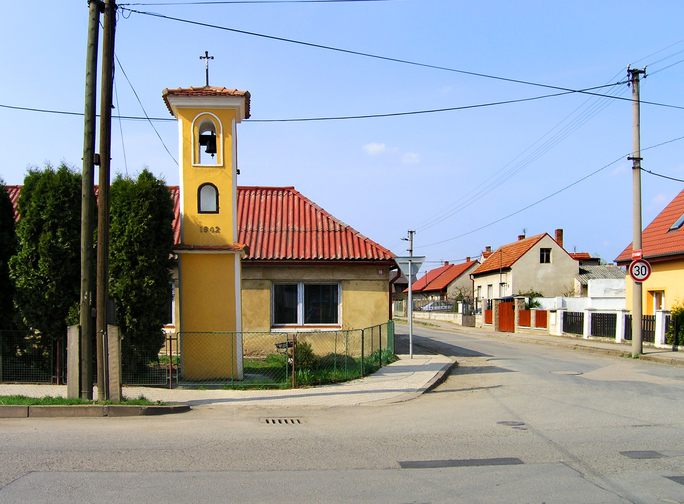 Bell tower at Hlavní street in Veleň, Czech Republic